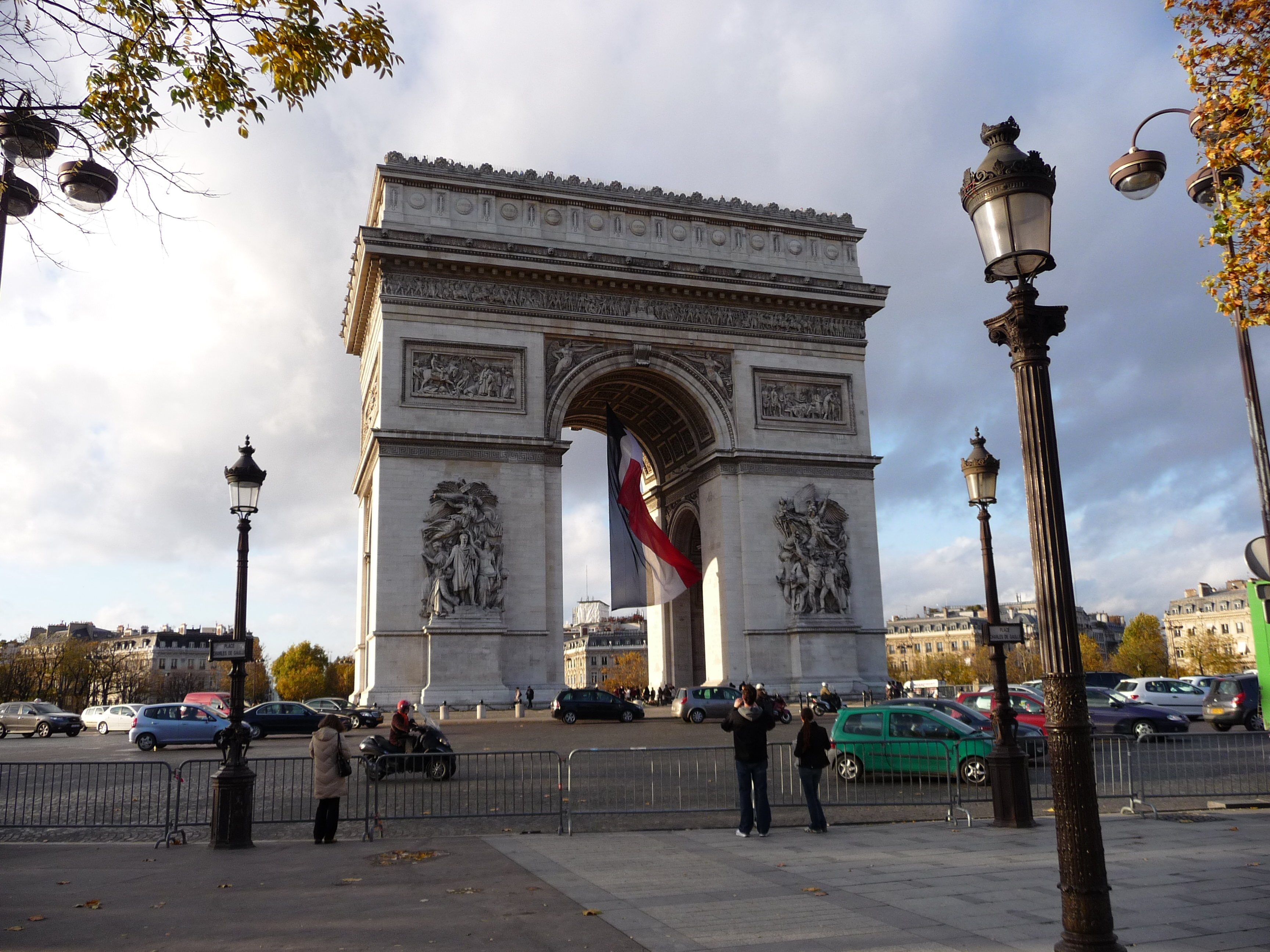 Paris - Arc de Triomphe - 2009